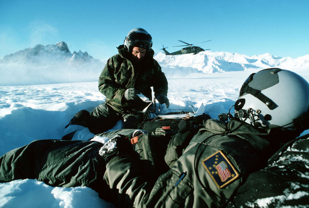 A member of the 210th Rescue Squadron (A.K.A. the parajumpers) prepares a splint, while another flies the helicopter in the background. Image courtesy of the U.S. Air Force.